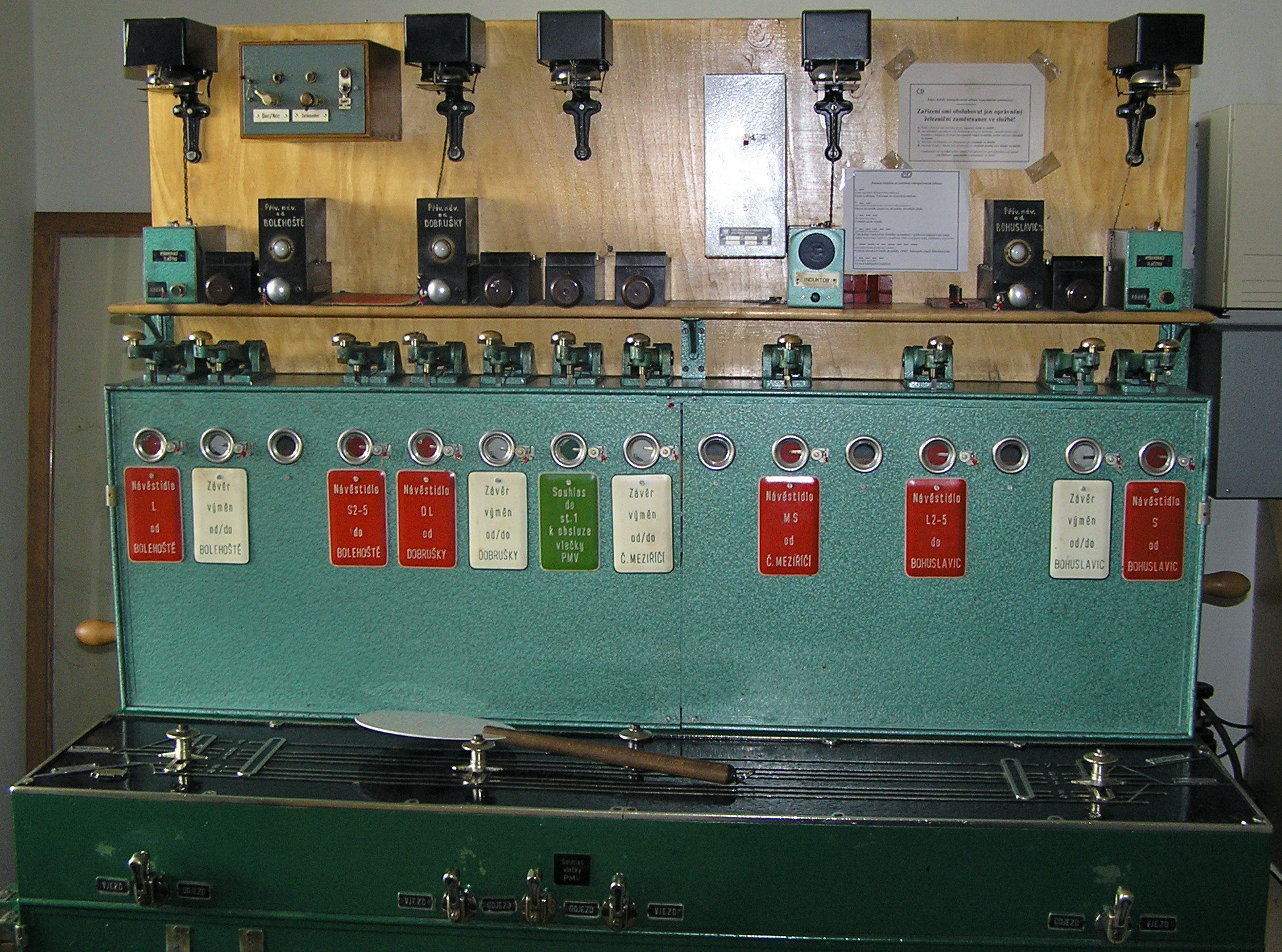 Mechanic interlocking machine (like lever frame) in the station Opočno pod Orlickými horami (East Bohemia)